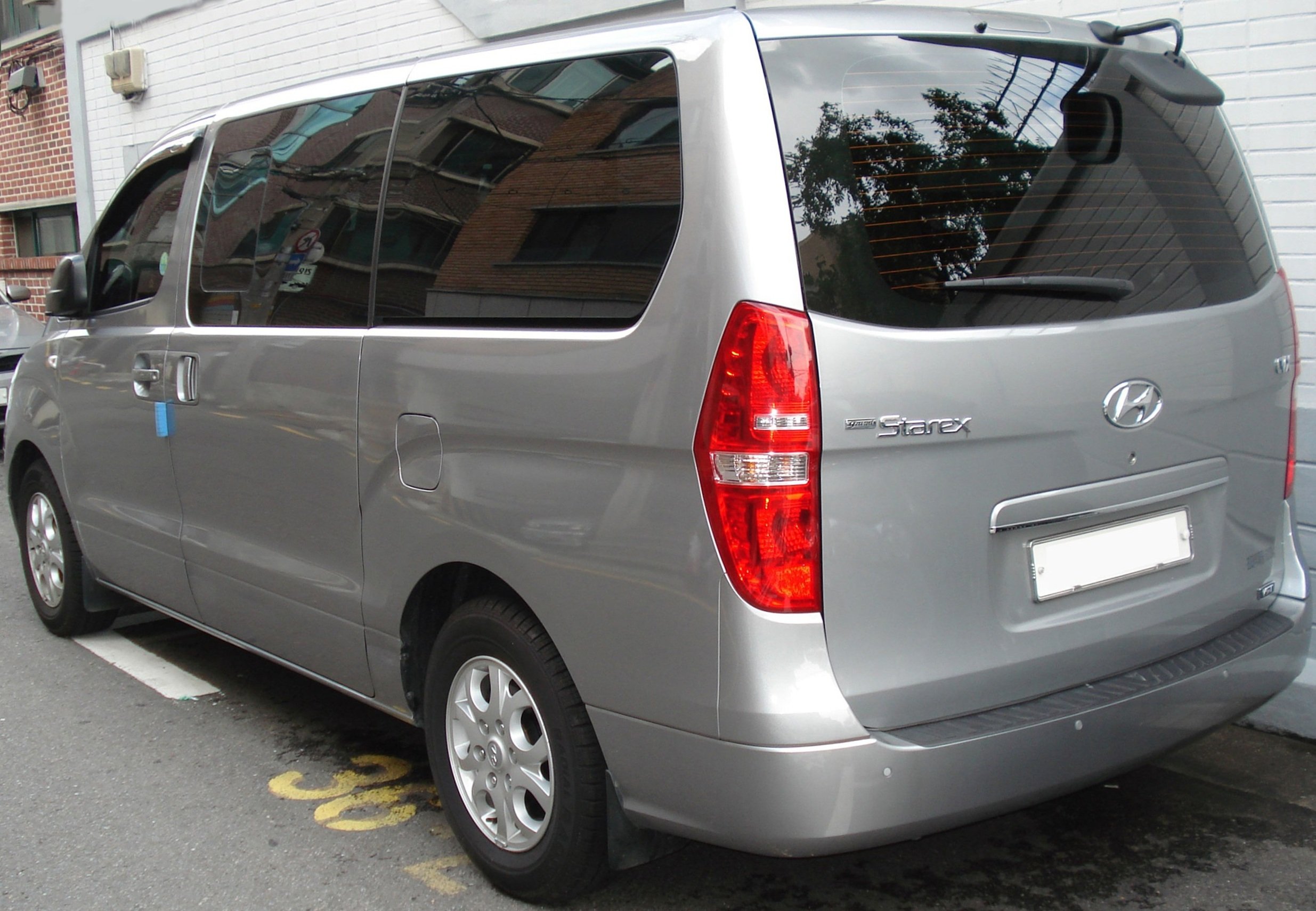 Hyundai Grand Starex